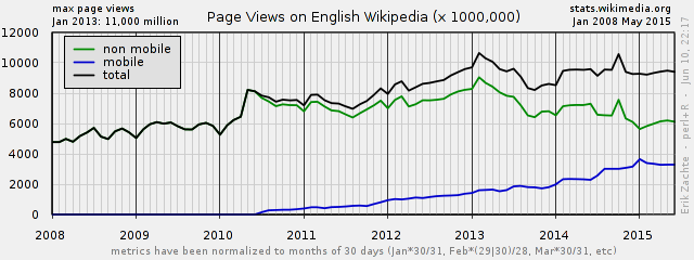 Plot of Page views on English Wikipedia by since 2008